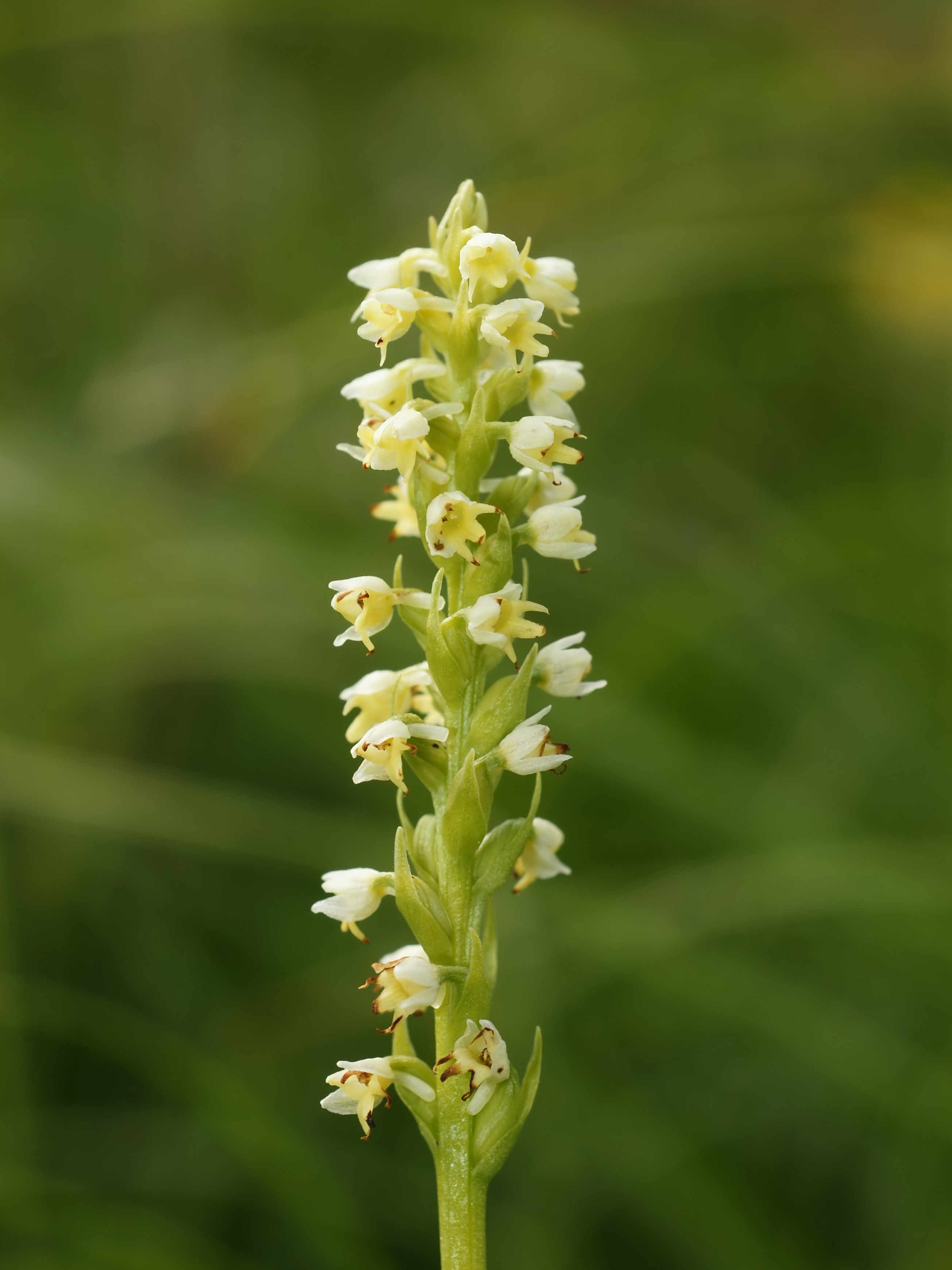 White Mountain Orchid, close to Moosalp, Wallis, Switzerland